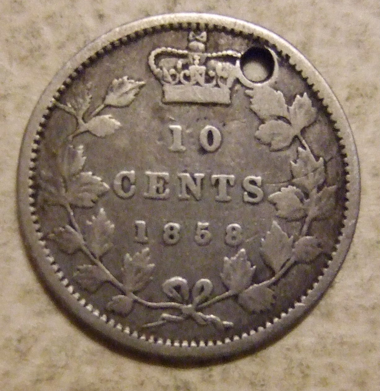 CANADA, VICTORIA 1858 ---10 CENTS CANADA'S FIRST DIME a